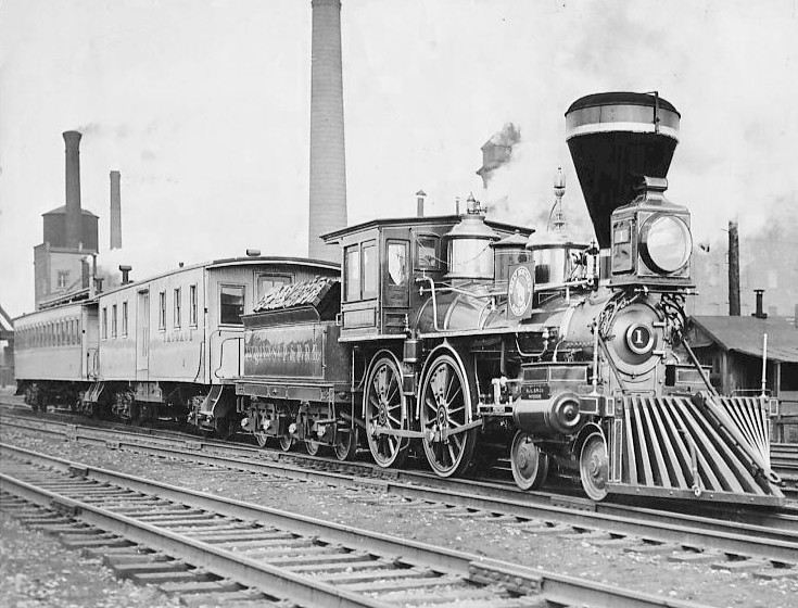 Photo of the Great Northern Railway's steam locomotive, William Crooks, taken in Chicago as the train made its way from St. Paul, Minnesota to the w:1939 New York World's Fair . The train was traveling under its own power.